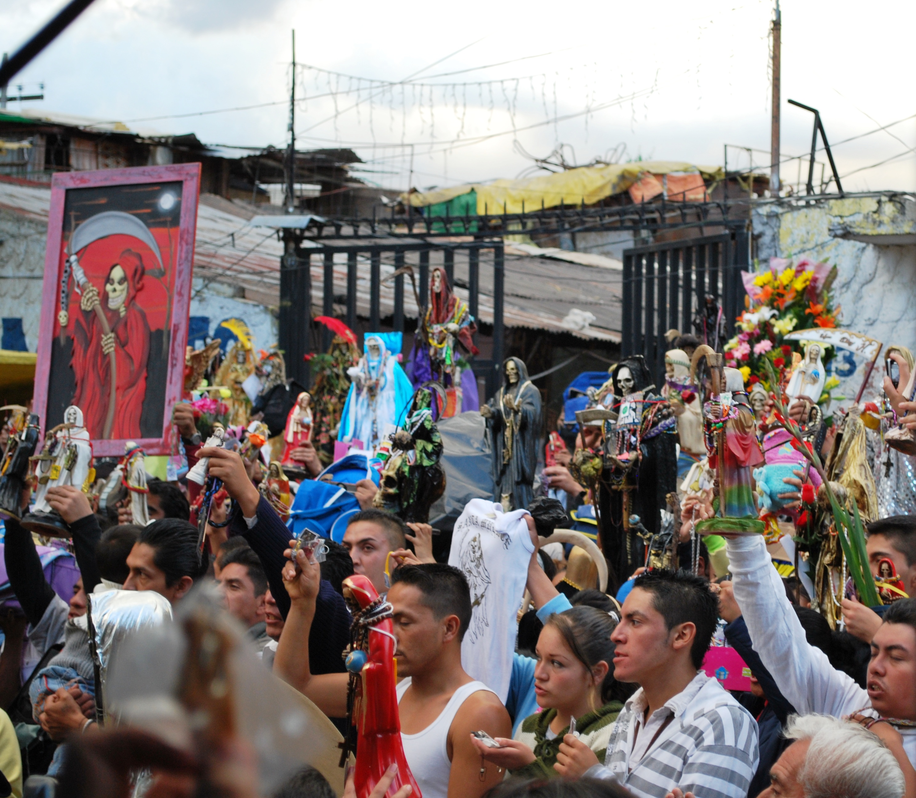 Raising of Santa Muerte images during a service on Alfareria Street Tepito Mexico City